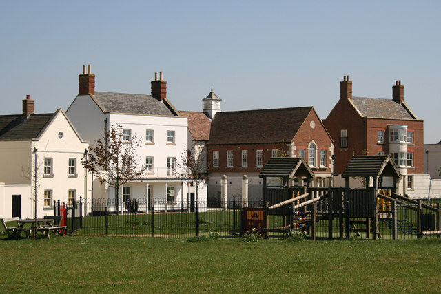 Children's playground Children's playground near Holmead walk Poundbury.